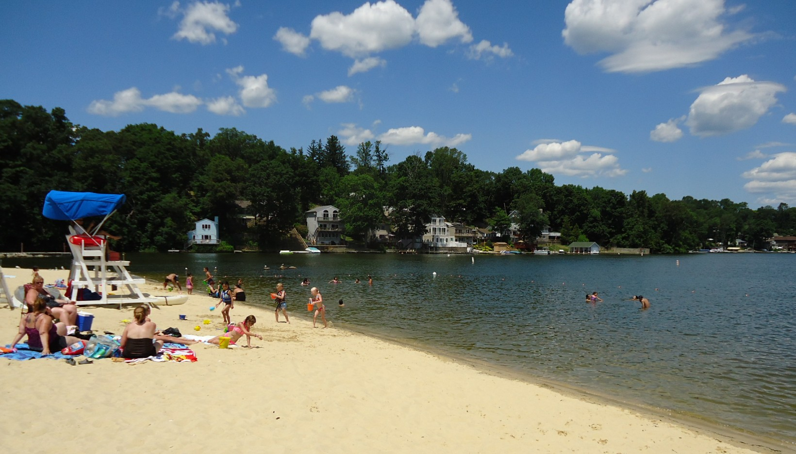 Beach scene at Lake Hopatcong State Park in New Jersey.